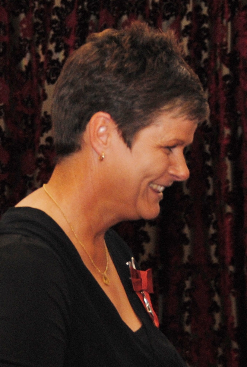 Jo Edwards, at her investiture as MNZM, for services to lawn bowls, on 9 September 2014